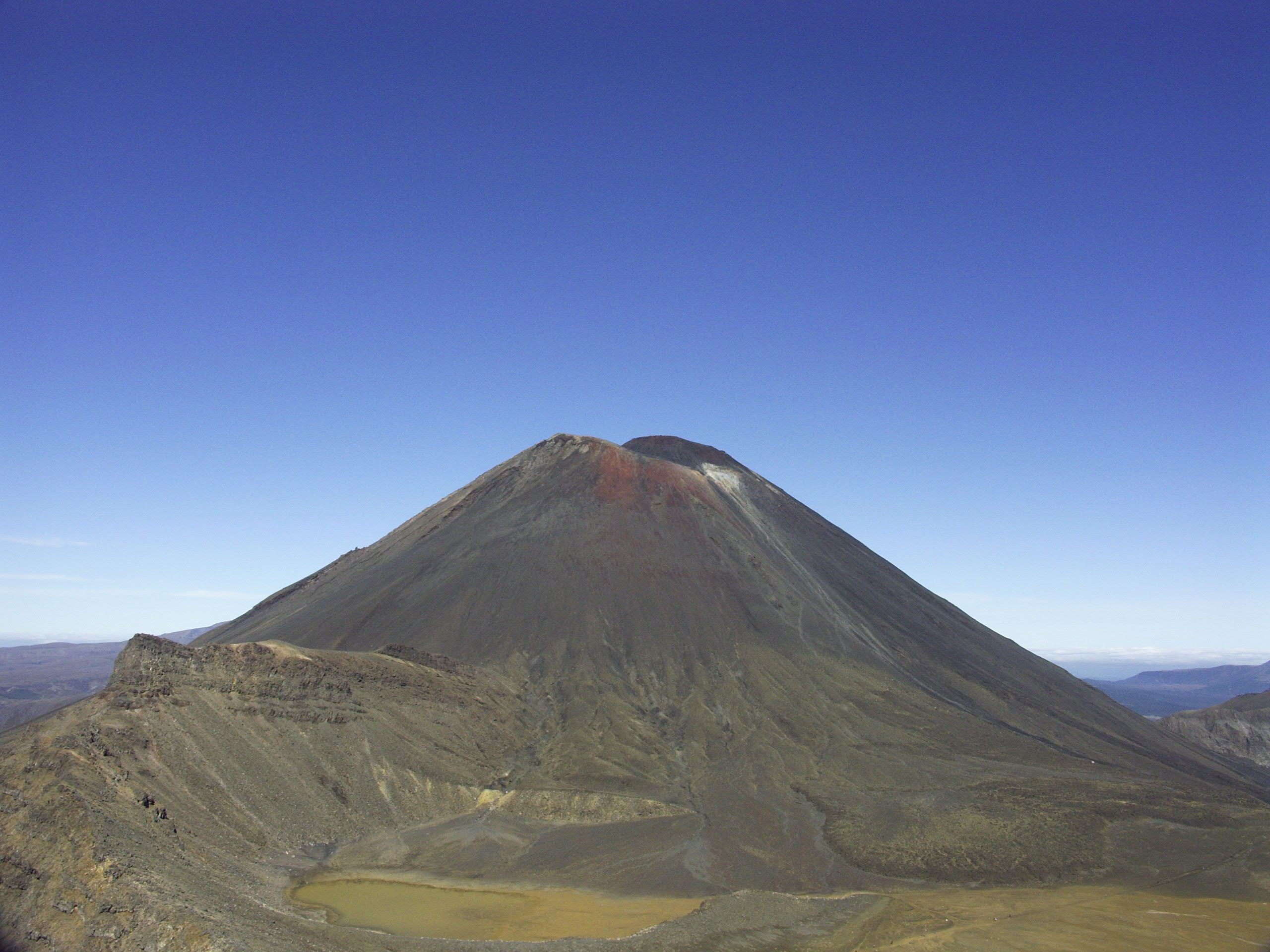 Mount Ngauruhoe in Tongariro National Park